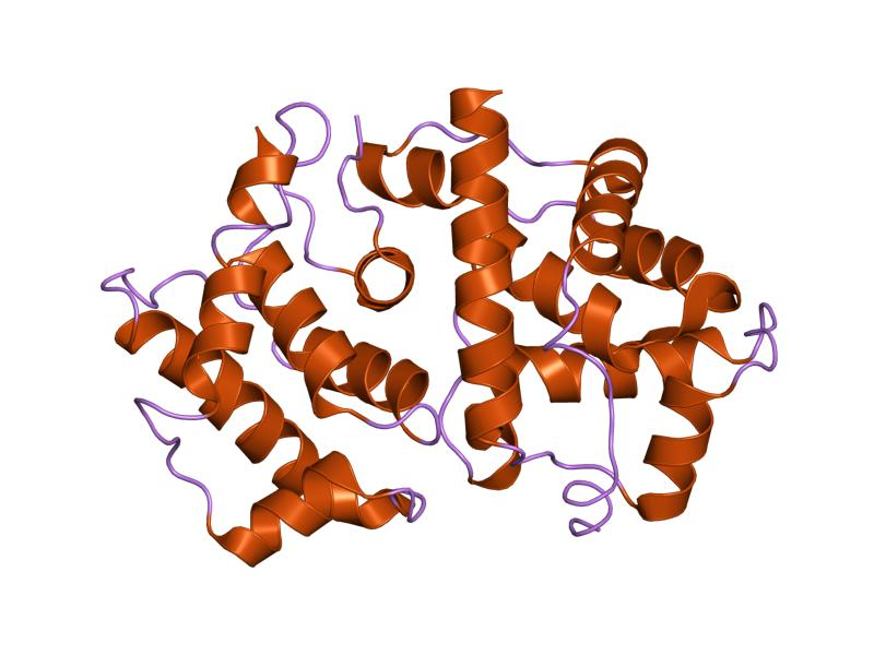 Cartoon representation of the molecular structure of protein registered with 1tx9 code.